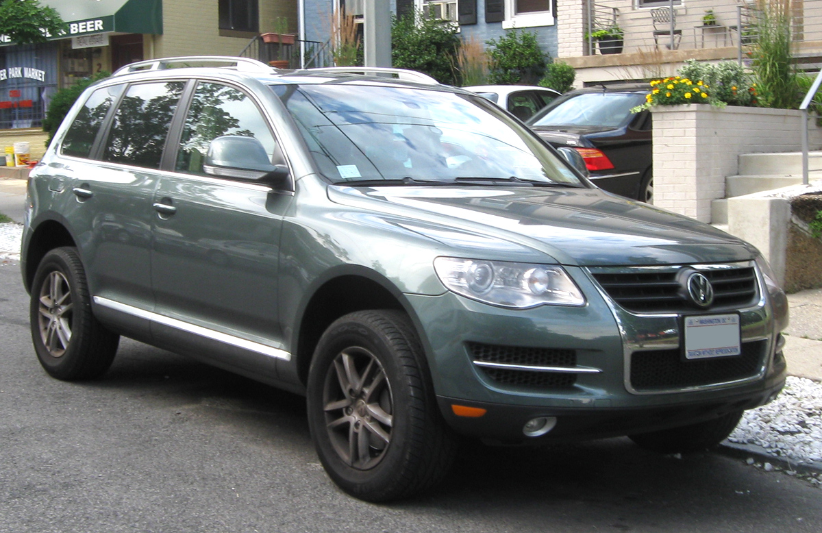 Volkswagen Touareg 2 photographed in Washington, D.C., USA.